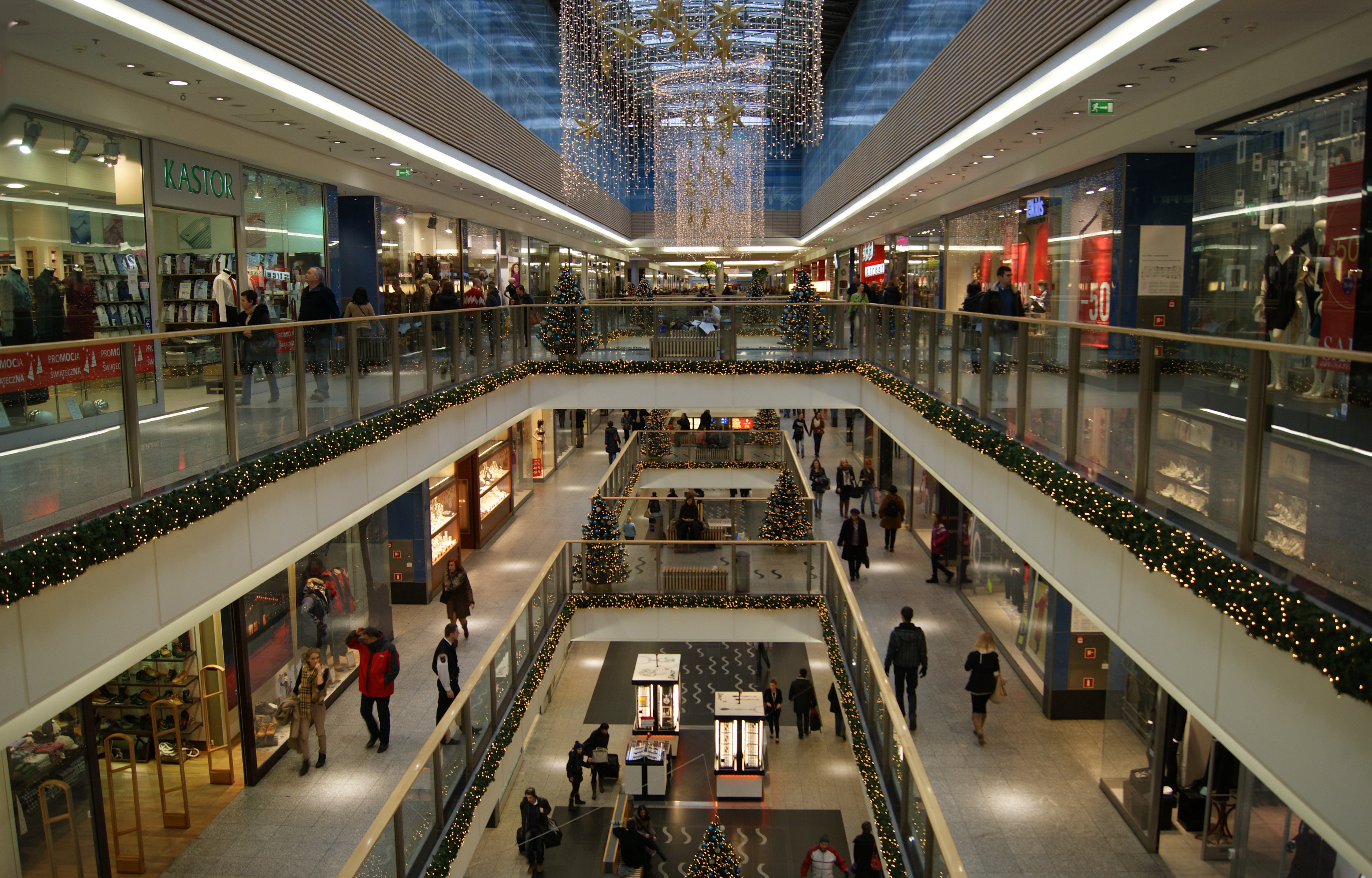 Krakow Shopping mall (interior), Pawia street, Krakow, Poland